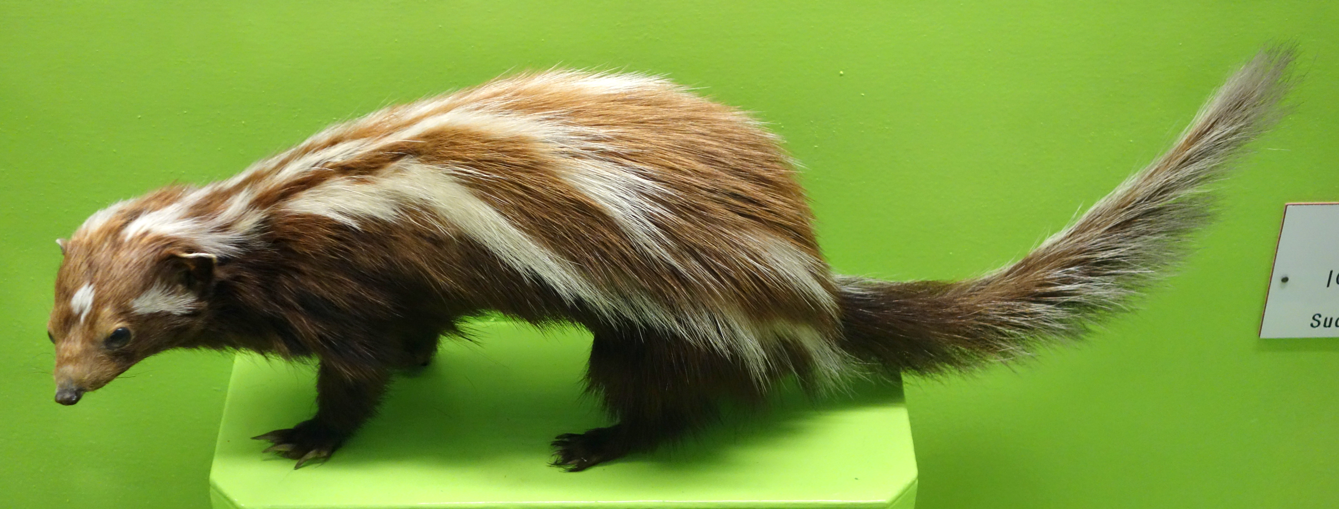 Exhibit in the Museo Civico di Storia Naturale di Genova, Via Brigata Liguria, 9, 16121, Genoa, Italy.